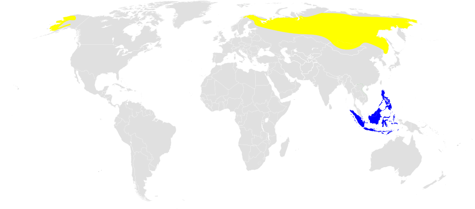 Phylloscopus borealis distribution map, based on